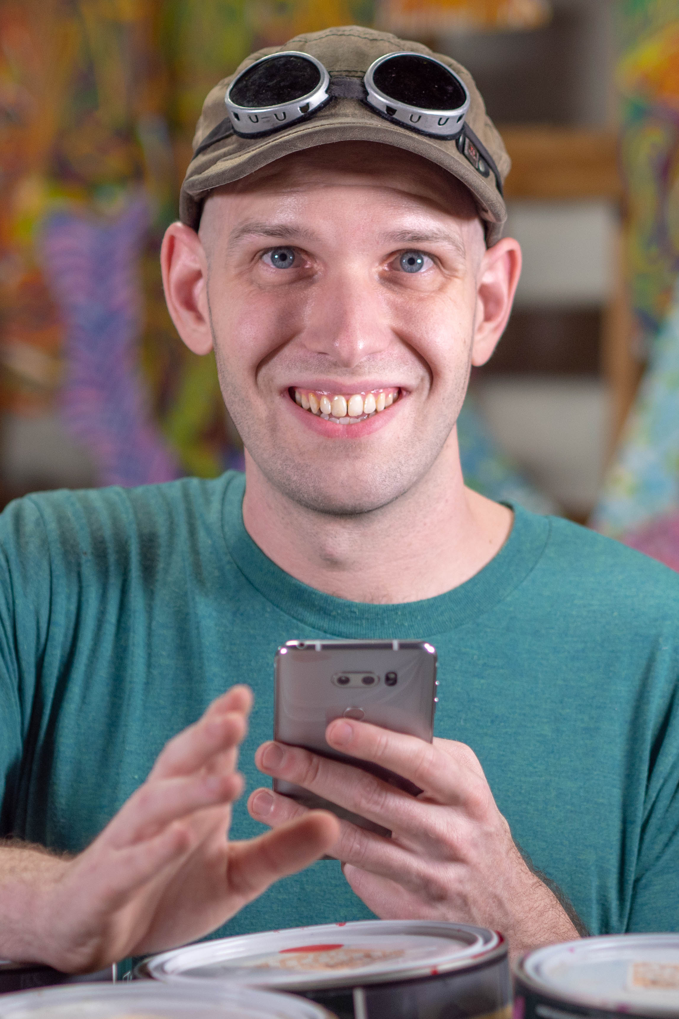 Foo Conner on his phone at the Randyland Studio.